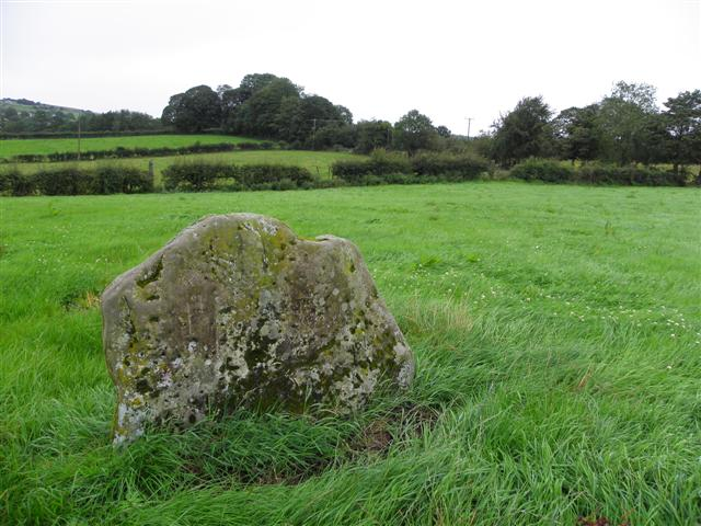 Standing stone, Sess Kilgreen